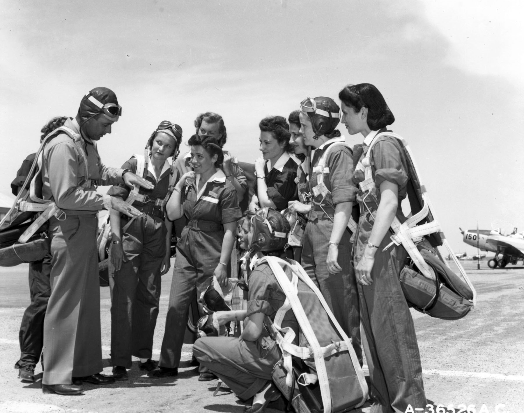 WASP trainees and their instructor pilot.